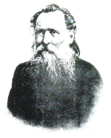 Photograph of Ottó Herman (1835-1914)